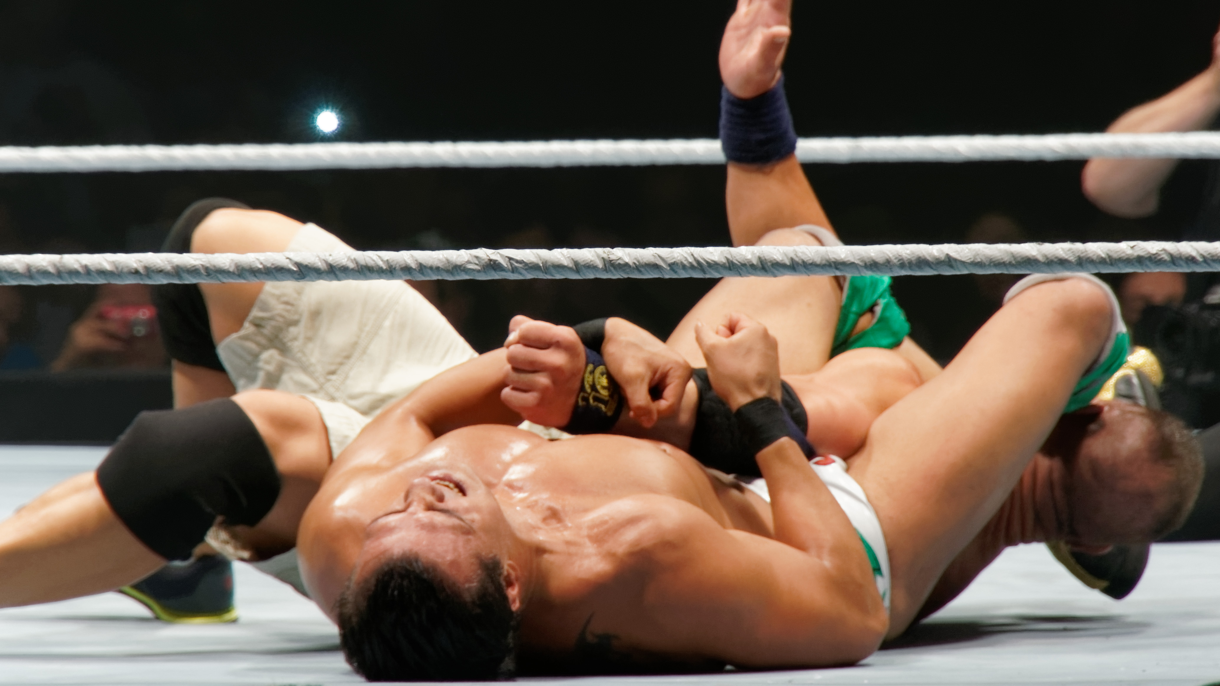 finisher